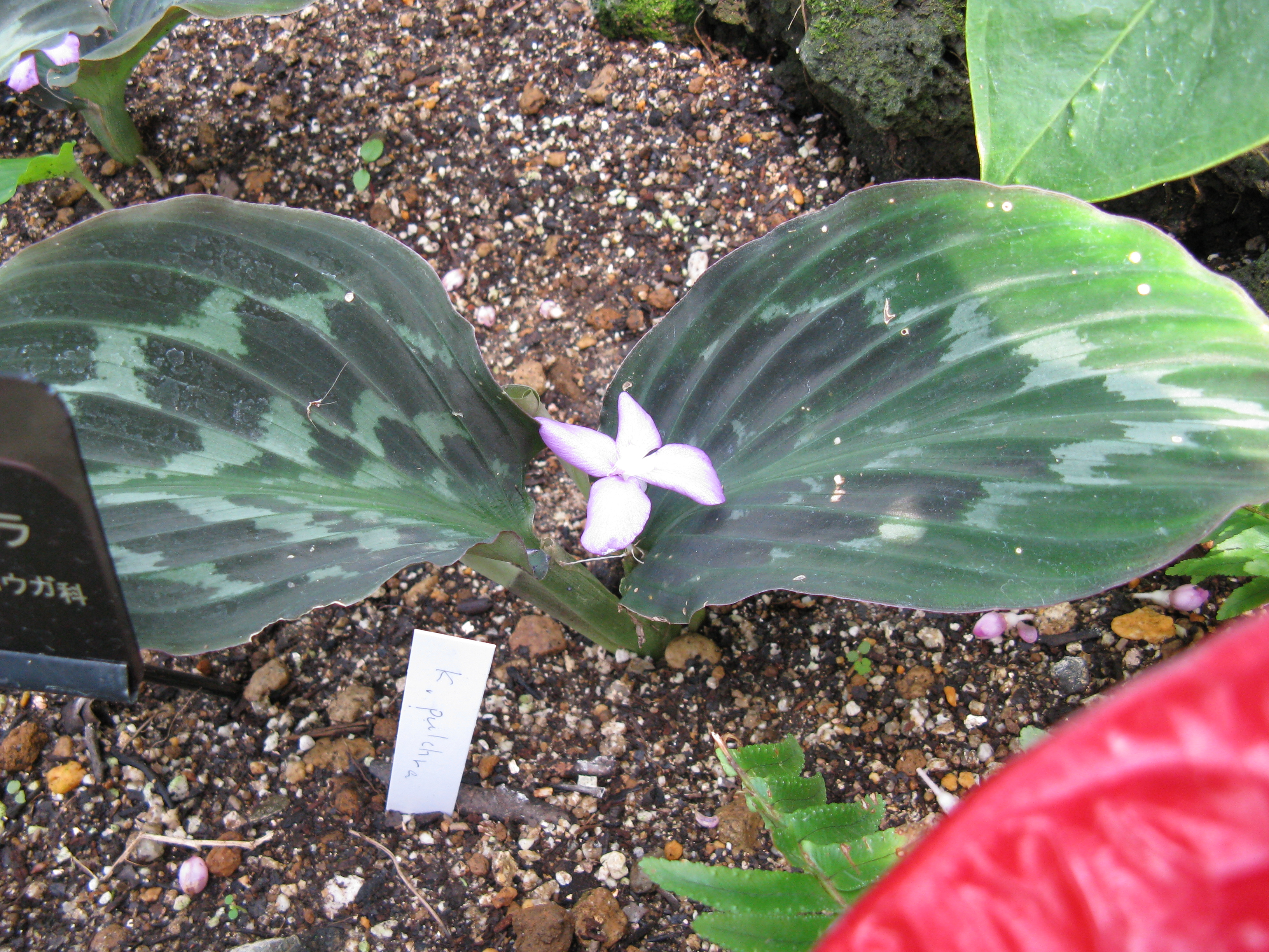 Kaempferia pulchra Place:Osaka Prefectural Flower Garden,Osaka,Japan